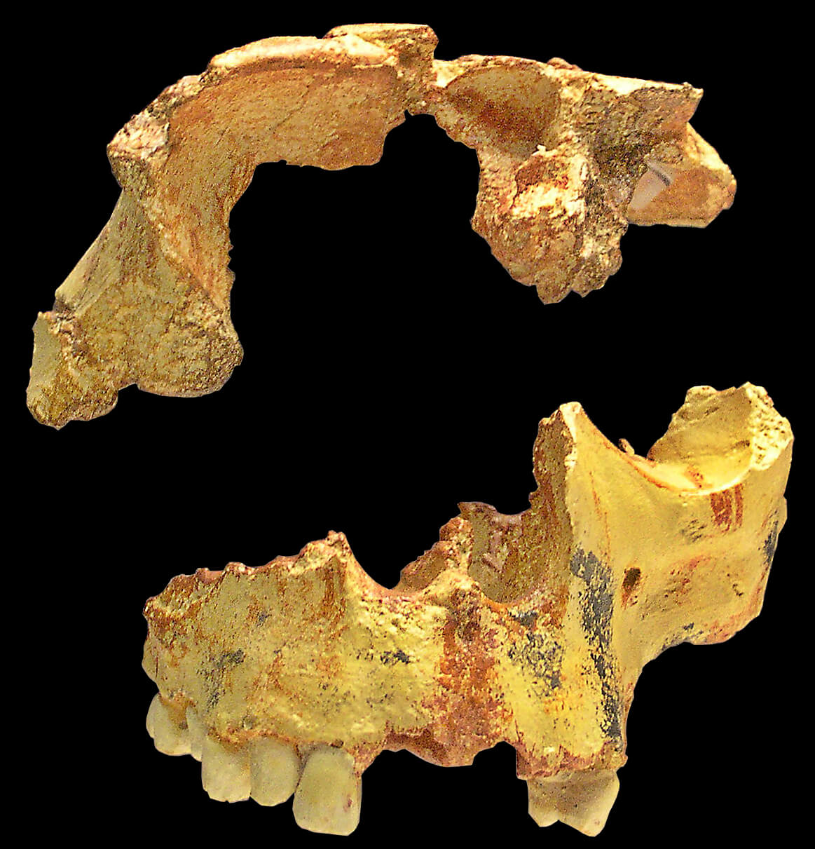 Homo antecessor, incomplete skull from "Gran Dolina" (ATD6-15 & ATD6-69), in Atapuerca, Spain (replica)